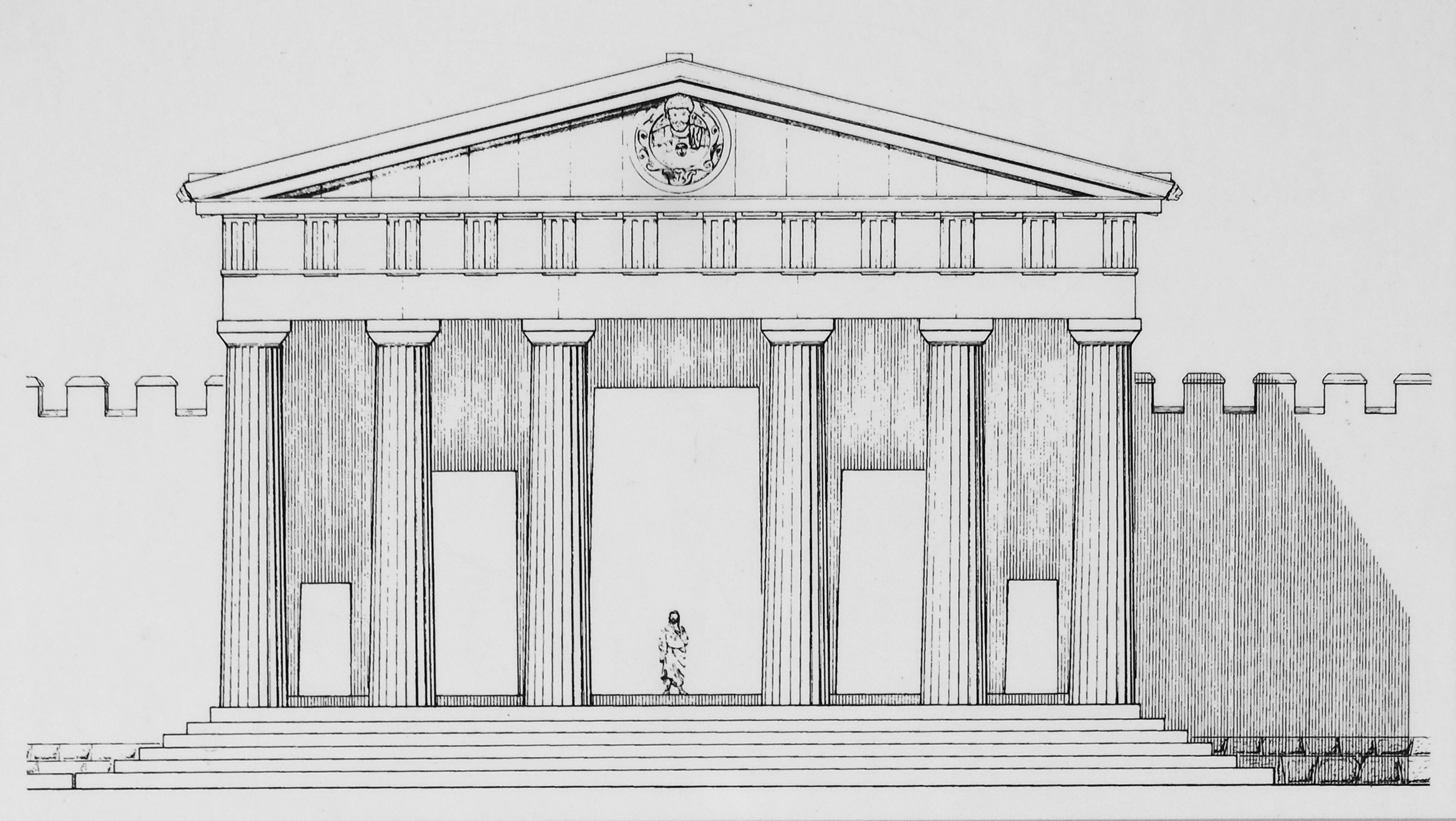 Reconstruction of greater propylaia